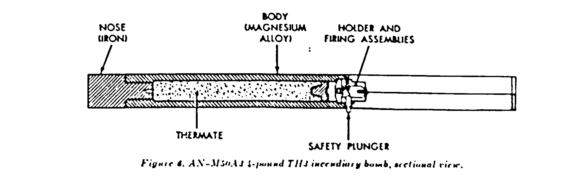 US incendiary AN-M50, 4 lb, (1.6 kg, containing 0.28 kg Thermit)